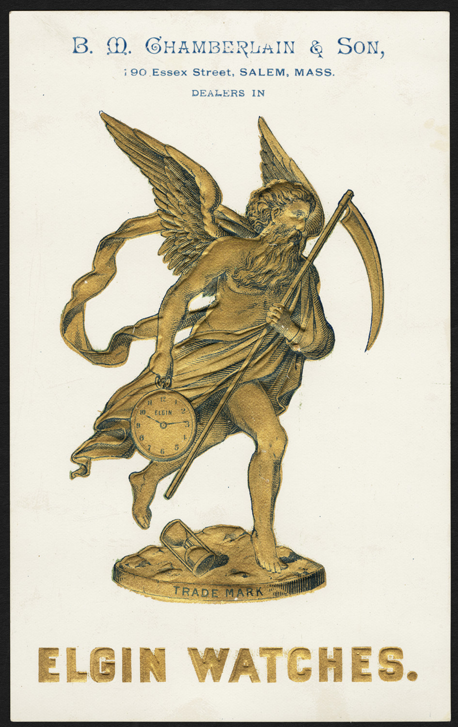 File name: 10_03_002589a Binder label: Shoes Title: B. M. Chamberlain & Son, Elgin watches. [front] Date issued: 1870 - 1900 (approximate) Physical description: 1 print : chromolithograph ; 18 x 11 cm. Genre: Advertising cards Subject: Clocks & watches; Sculptures Notes: Title from item. Item verso is blank. Retailer: B. M. Chamberlain & Son Collection: 19th Century American Trade Cards Location: Boston Public Library, Print Department Rights: No known restrictions.